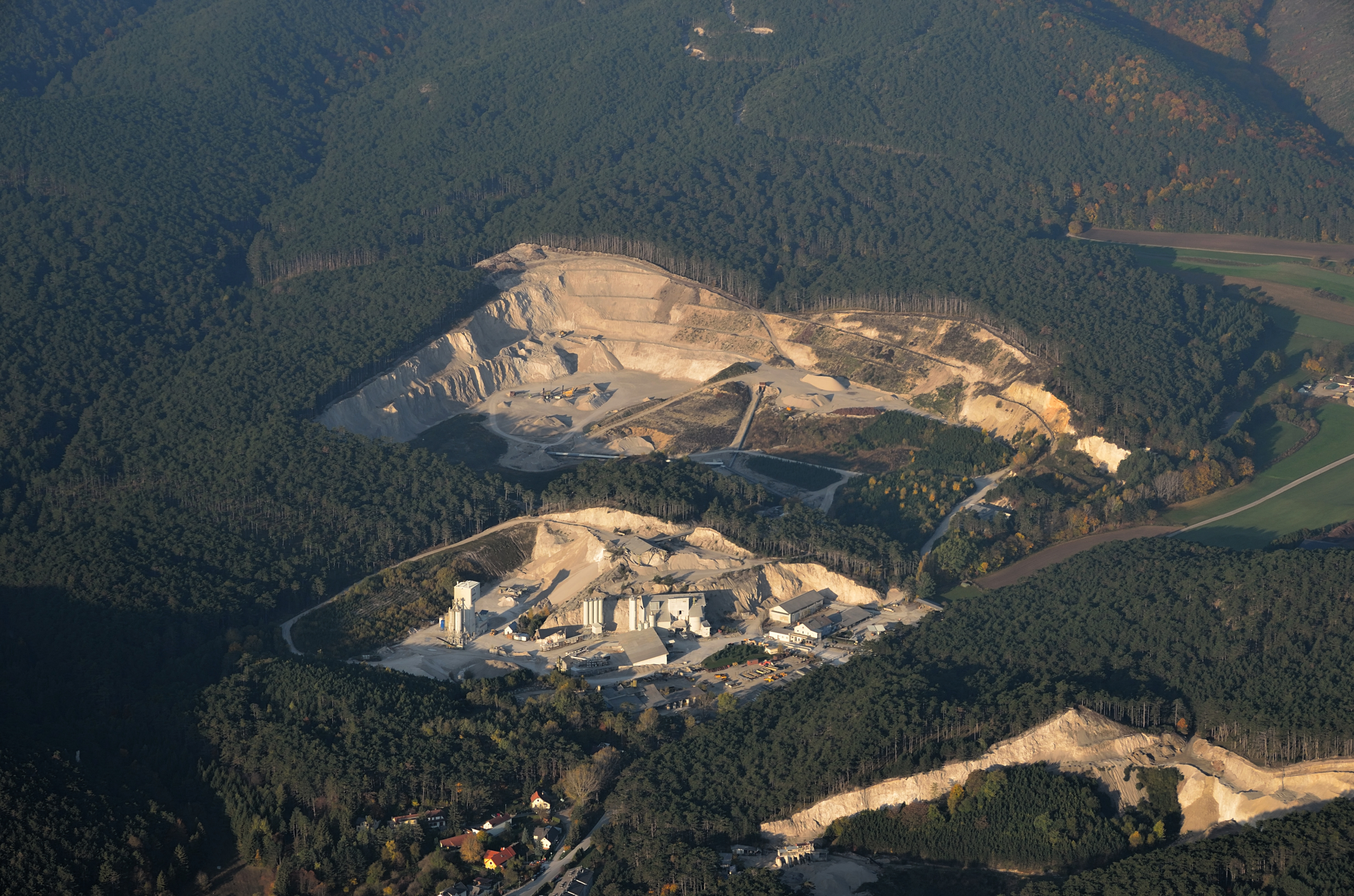 Quarry Steinhof, municpality Hernstein, Lower Austria.